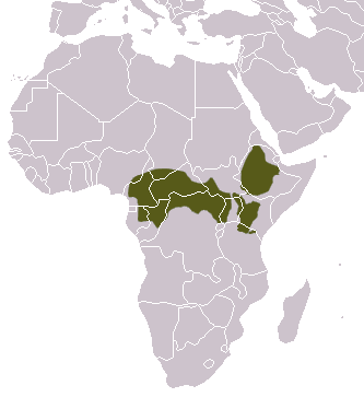 Mantled Guereza (Colobus guereza) range